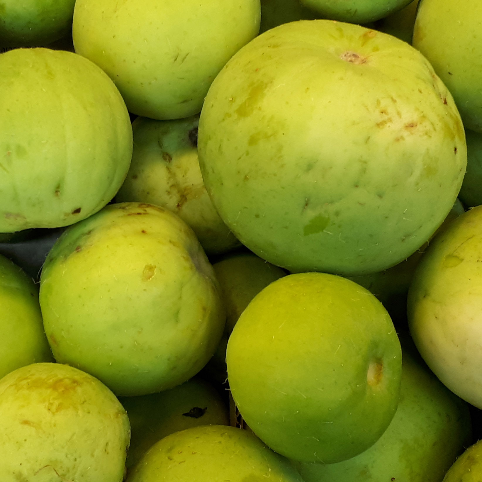 Tindas